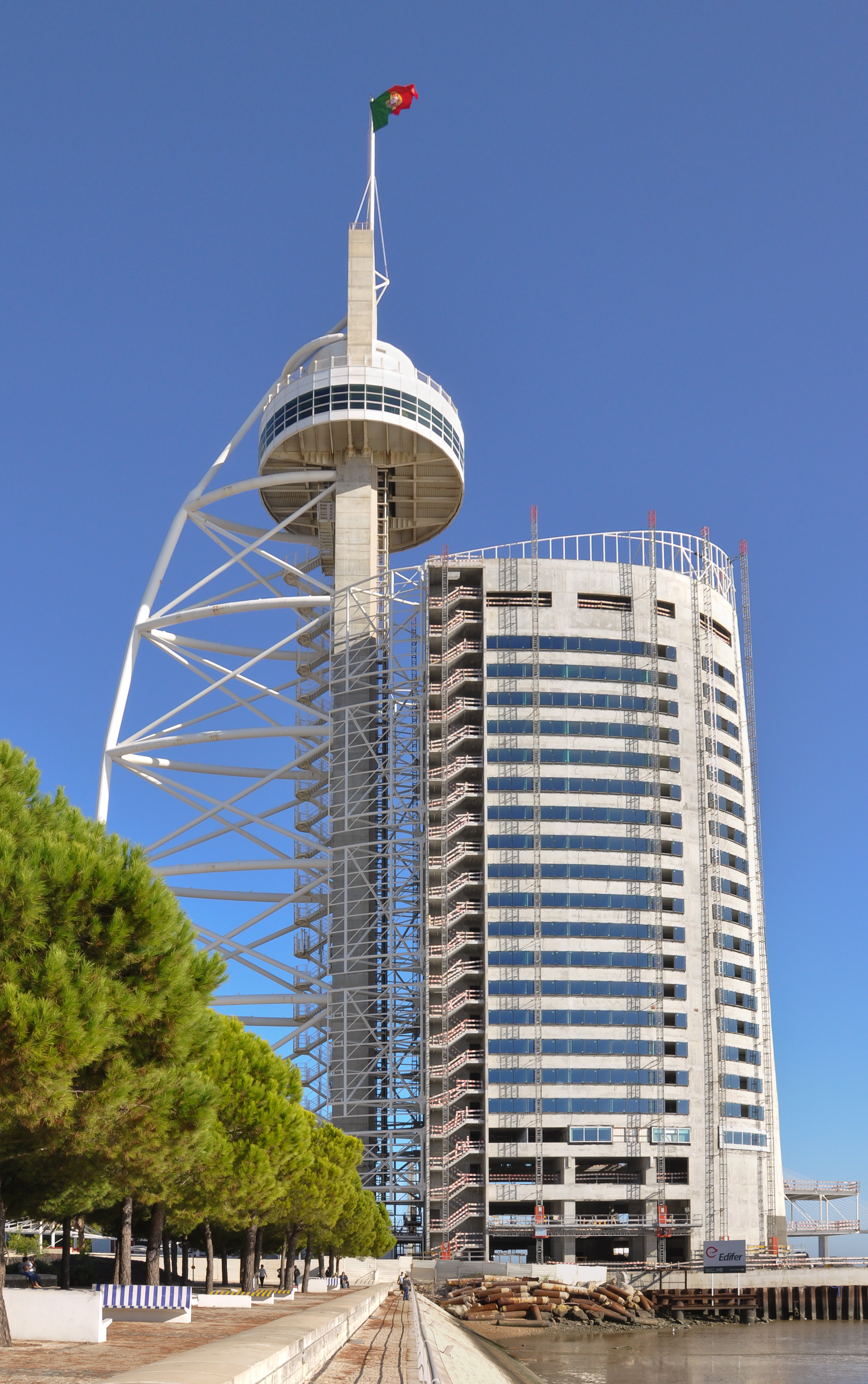 Vasco da Gama Tower, 145 meters high, with "Sana Torre Vasco da Gama Royal Hotel" under construction in Lisbon, in 2010.